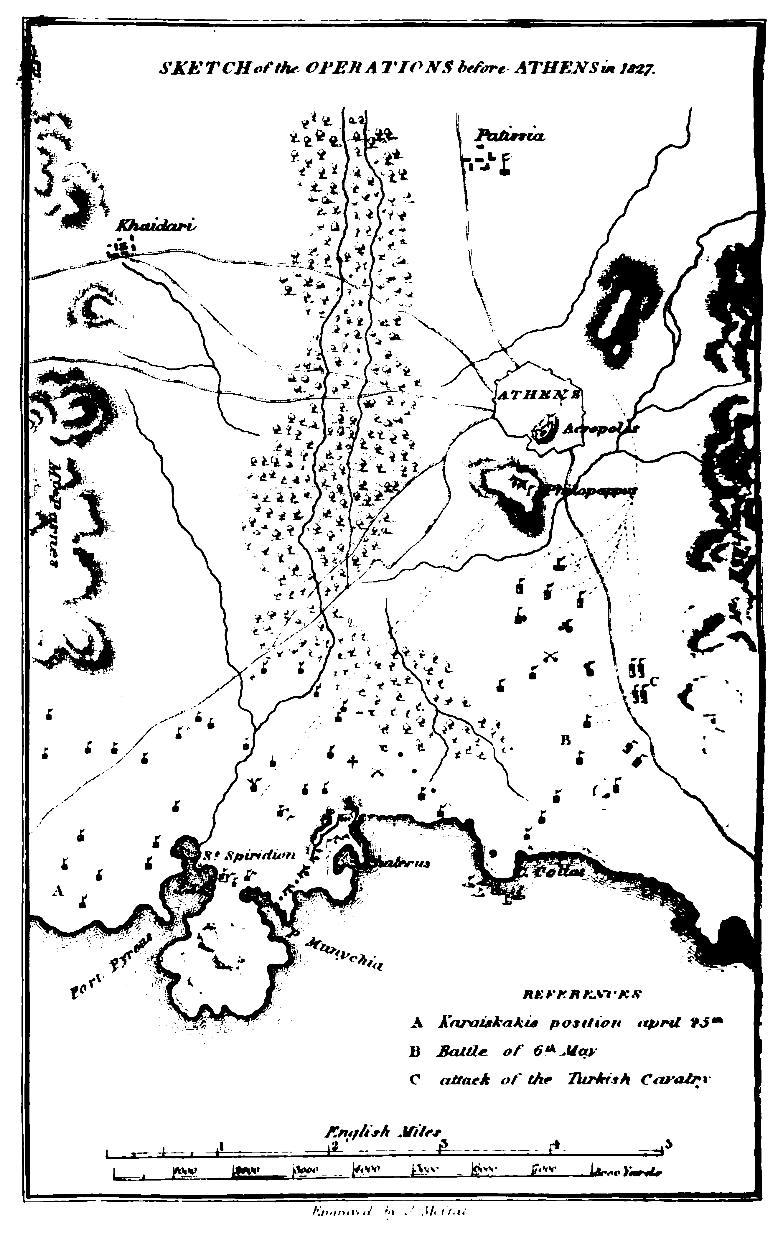 Map of the battle of Faliro by T. Gordon